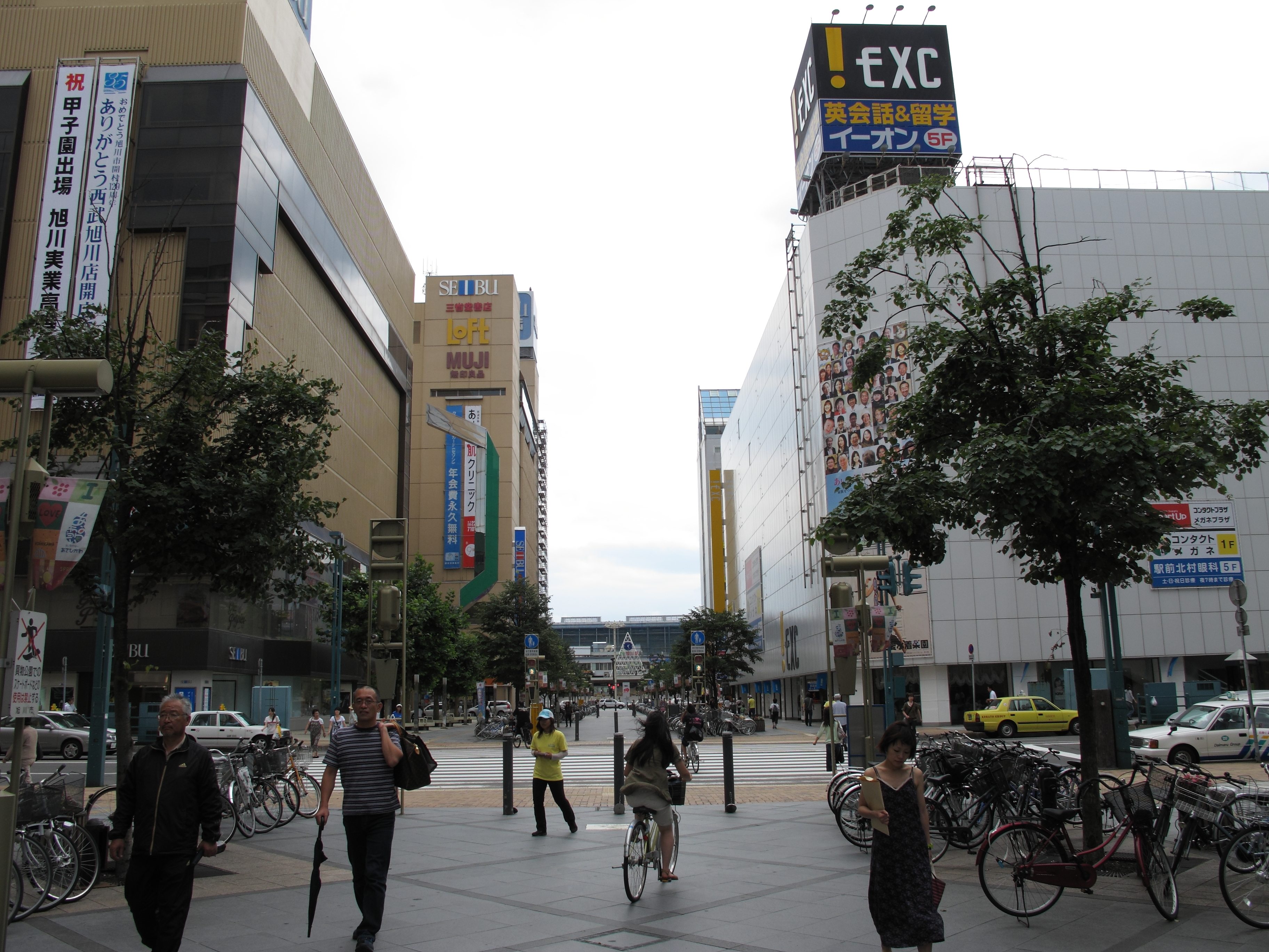 ASAHIKAWA city, Asahikawa.